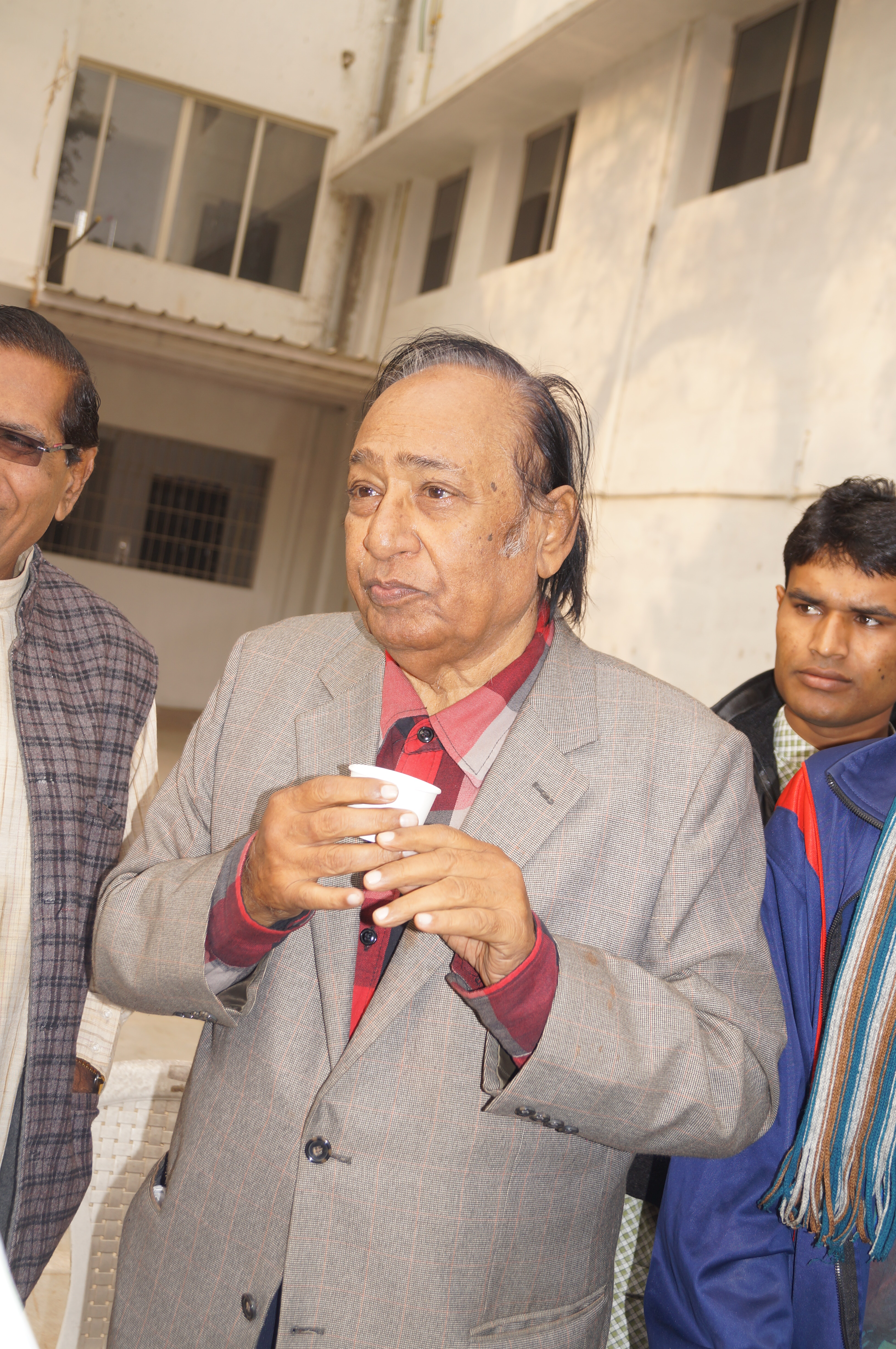 The great actor from Gujarat, Upendra Trivedi at 47th Adhiveshan of Gujarati Sahitya Parishad, Aanand, Gujarat, India.